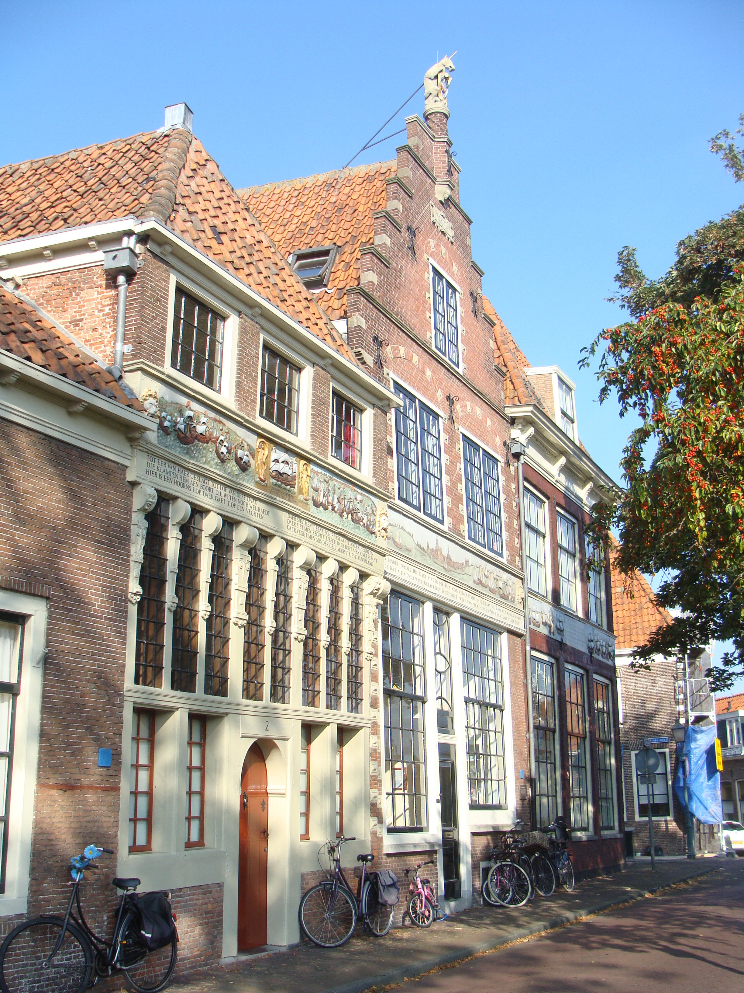 The Bossuhuizen, a row of three monumental buildings in the North-holland town of Hoorn.